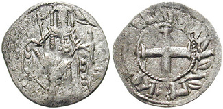 Andronico II di Bisanzio Andronicus II Palaeologus Andronicus II Palaeologus. 1282-1328. Billon Tornese (0.76 gm). Constantinople mint. Sole reign, 1282-1295. Andronicus standing facing, holding cross-sceptre and akakia +KOMNHNOC O PALAIOLOGC, plain cross. DOC V 551; Bendall 94A; SB 2327. Andronicus II, son of Michael VIII, was born in 1258 and may have been declared co-emperor as early as 1259. He ruled for over sixty-nine years, until he was deposed by his grandson Andronicus III in 1328. His reign was a direct contrast with that of his father; Andronicus restored peaceful relations with the Orthodox church, but his empire suffered severe losses at the front line. Thrace was devasted by conflict between Byzantium and the Catalans, Serbia took most of the province of Macedonia, and Asia Minor fell to the Turks. Andronicus had to greatly reduce his military forces to economize, and, in a particularly foolish decision, allowed the Byzantine fleet to deteriorate. Andronicus shared his reign with his son Michael IX for twenty-five years, and after Michael's death, with his grandson, Andronicus III. The coinage depicting Andronicus II is probably the most complex in the Byzantine series, involving five different regnal combinations (with Michael VIII, 1272-1282; sole reign, 1282-1295; with Michael IX, 1295-1320; second sole reign, 1320-1325; with Andronicus III, 1325-1328) and constant changes in the values and types of the silver and bronze denominations.